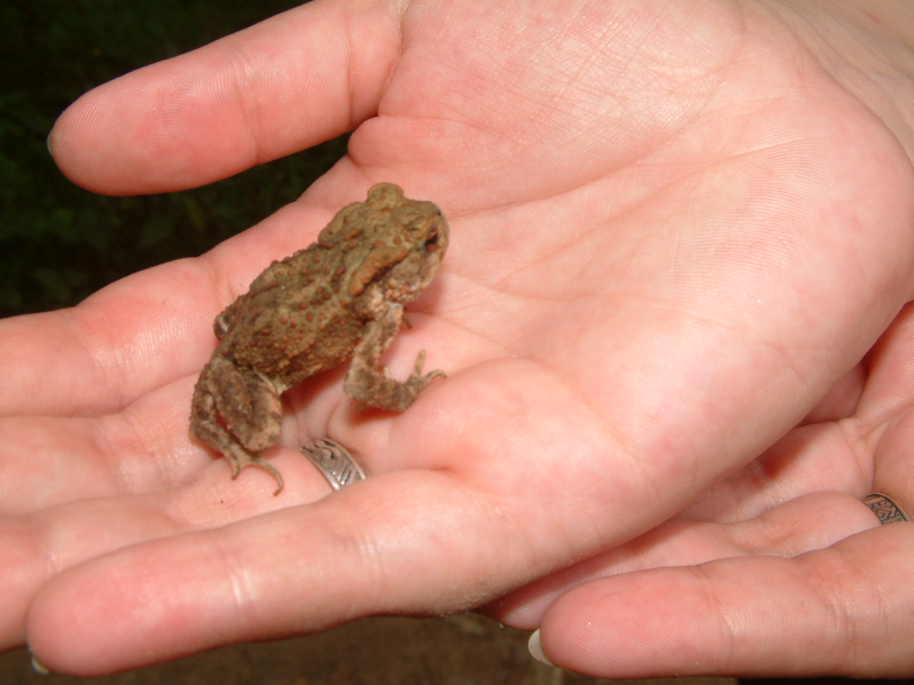 Young common toad (Bufo bufo) in Erdélyi Érchegység, Transylvania.